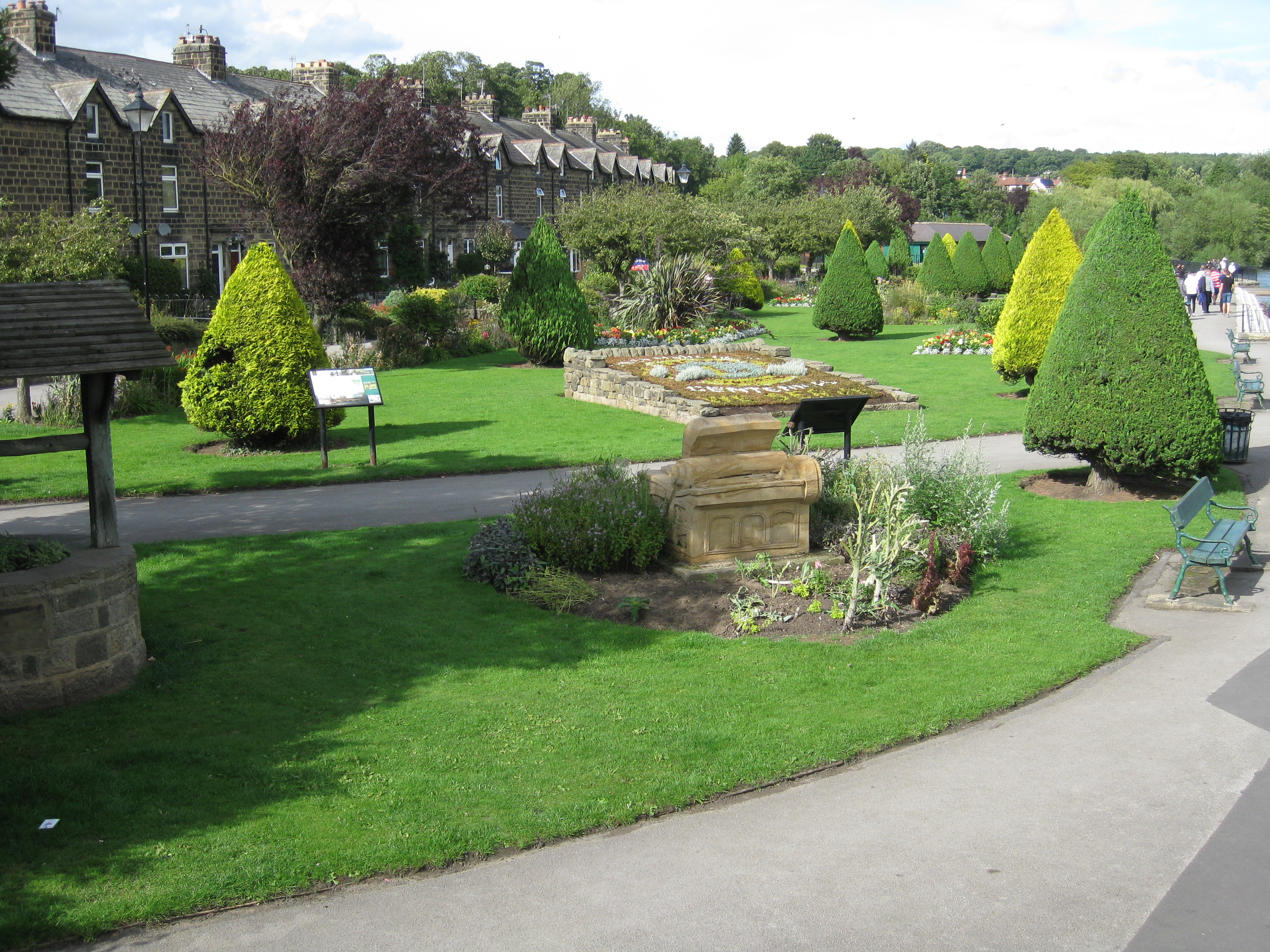 View of Wharfemeadows Park, Otley, looking East, parallel to the River Wharfe. In the foreground is a sandstone sculpture of a printing press, and behind it a floral display celebrating the centennial of Otley Lions Club. The terraced stone houses to the left are the backs of Bridge Avenue.